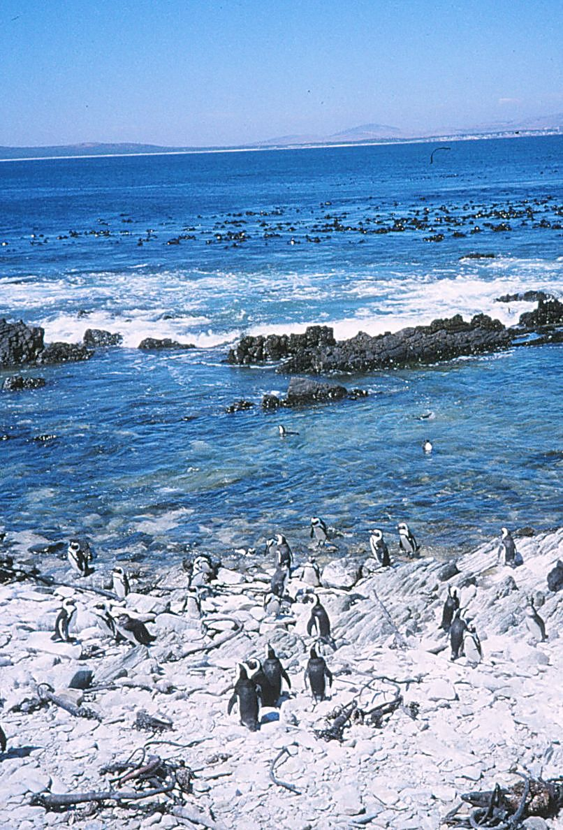 Jackass-penguins on Robben Island in Sydafrika. February 20, 1997.